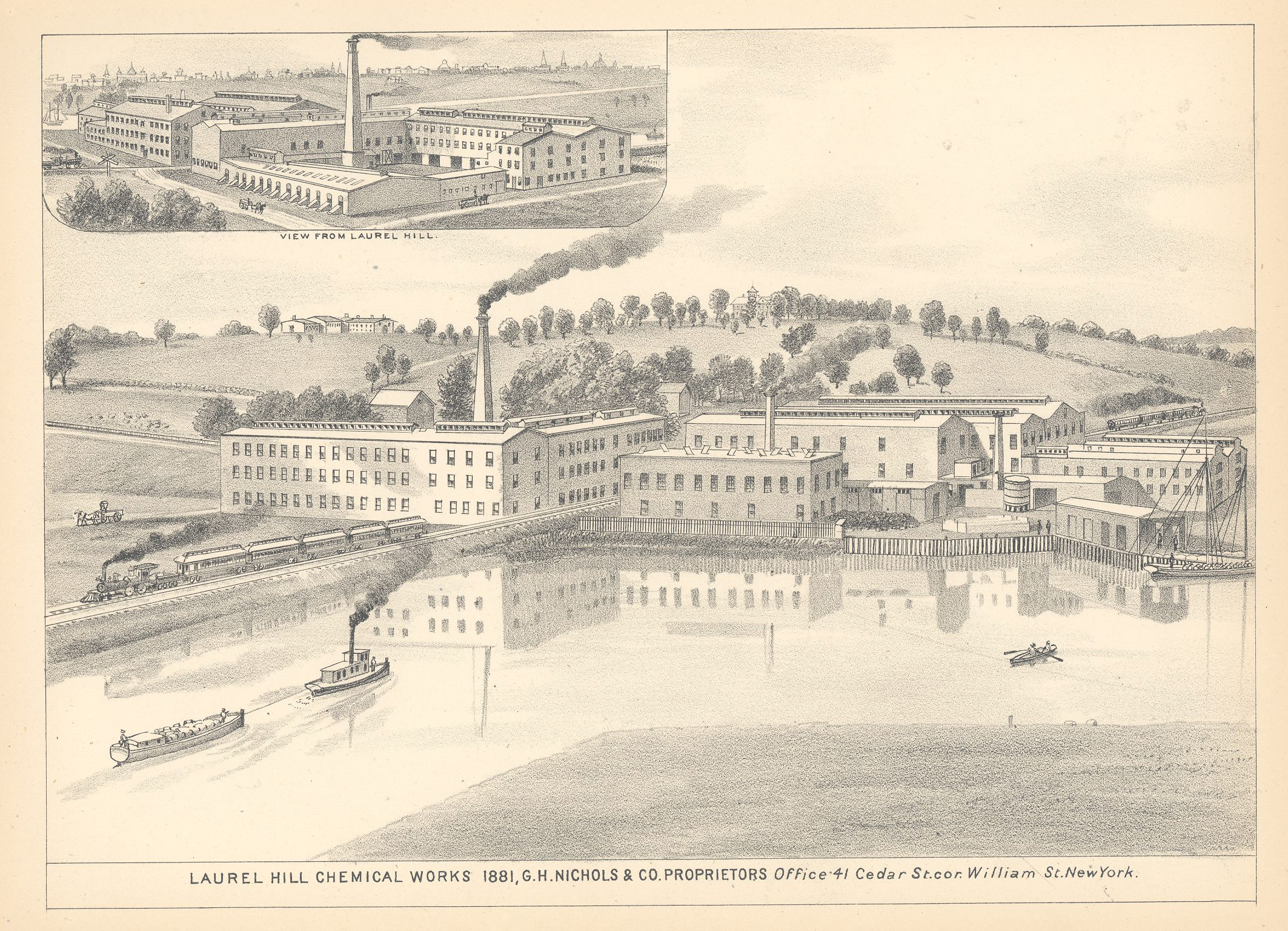 Laurel Hill Chemical Works plant